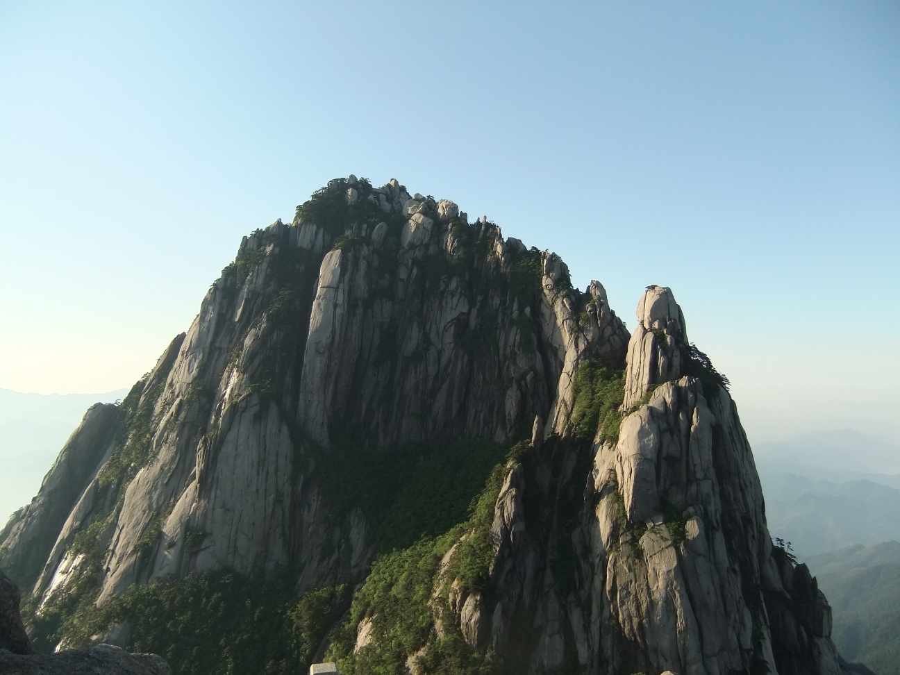 天都峰全景 - Panorama of the Celestial Capital Peak - 2010.05